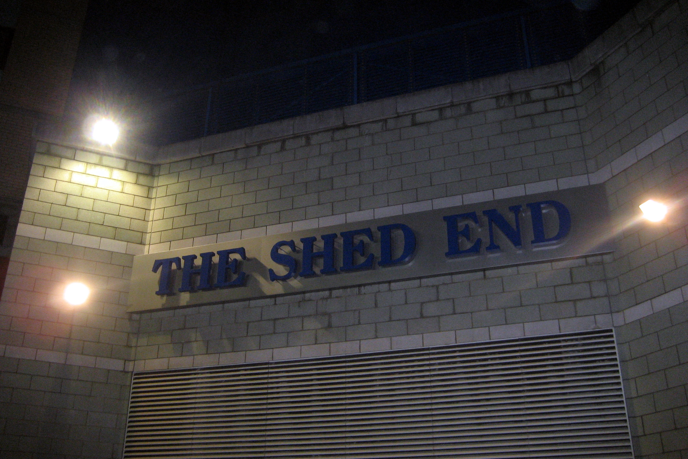 The Shed End, Stamford Bridge stadium in Britain.